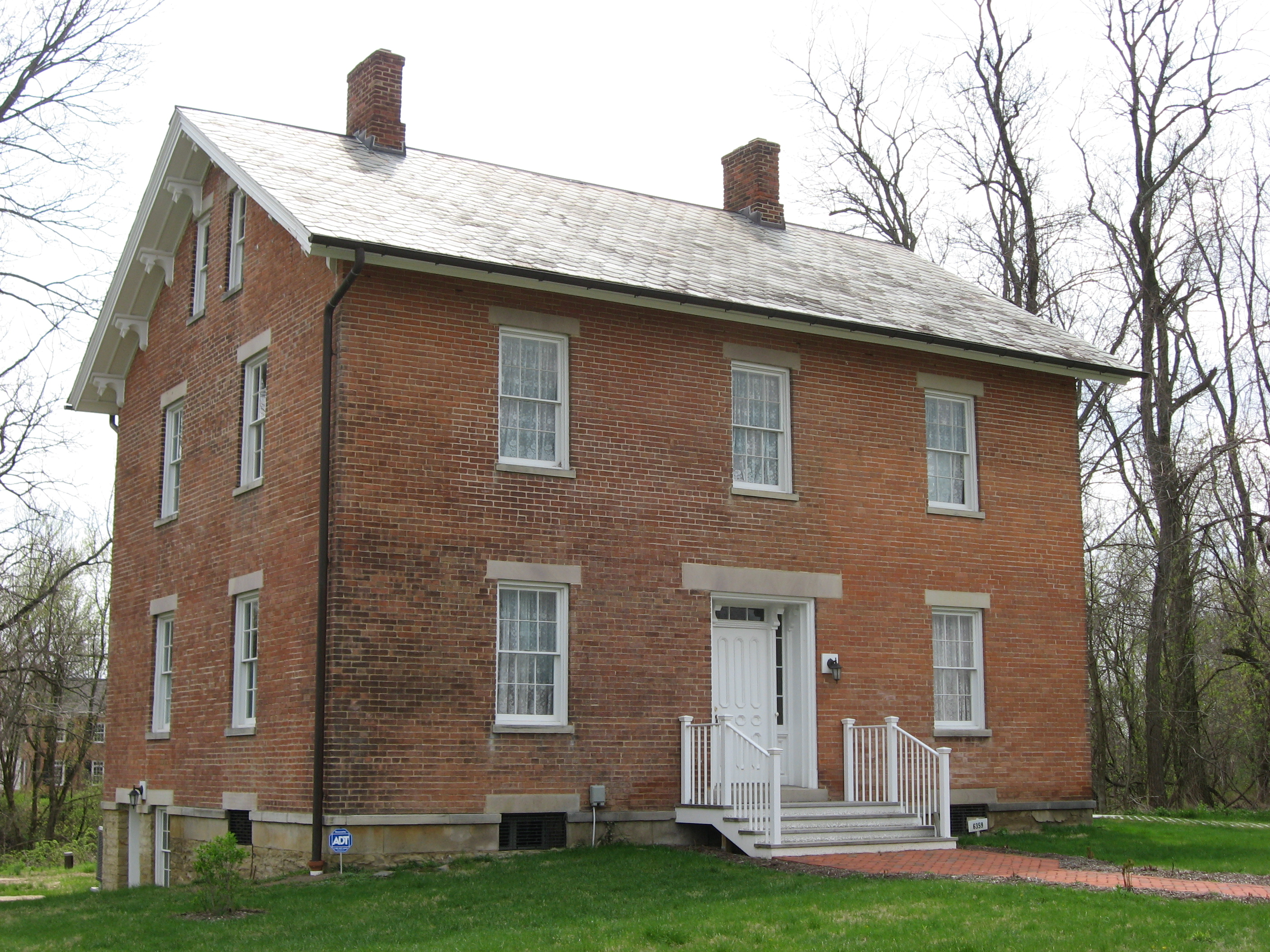 Front and eastern end of the George and Christina Ealy House, located at 6359 Dublin-Granville Road in New Albany, Ohio, United States. Built in 1860, it is listed on the National Register of Historic Places.